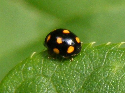 Brachiacantha ursina Anglais : Orange-spotted ladybug